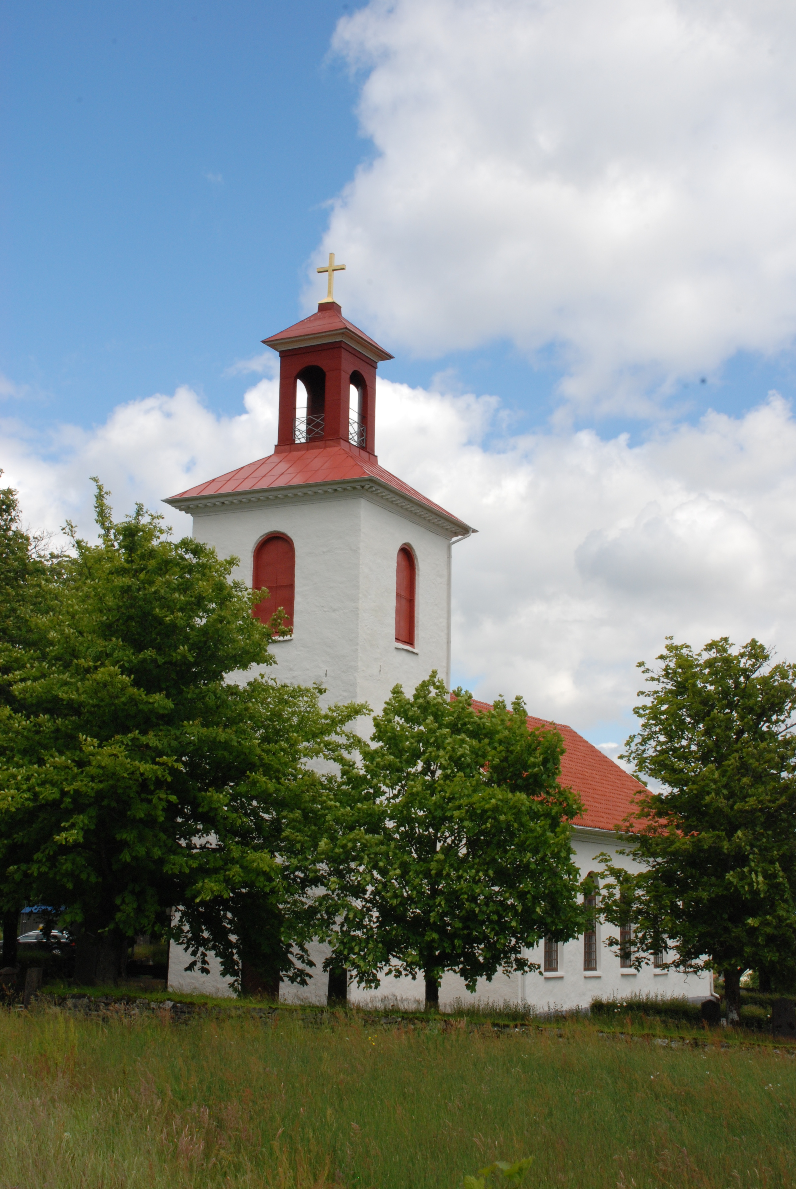 Ödenäs kyrka, parish church of Ödenäs, Alingsås Municipality, Sweden.